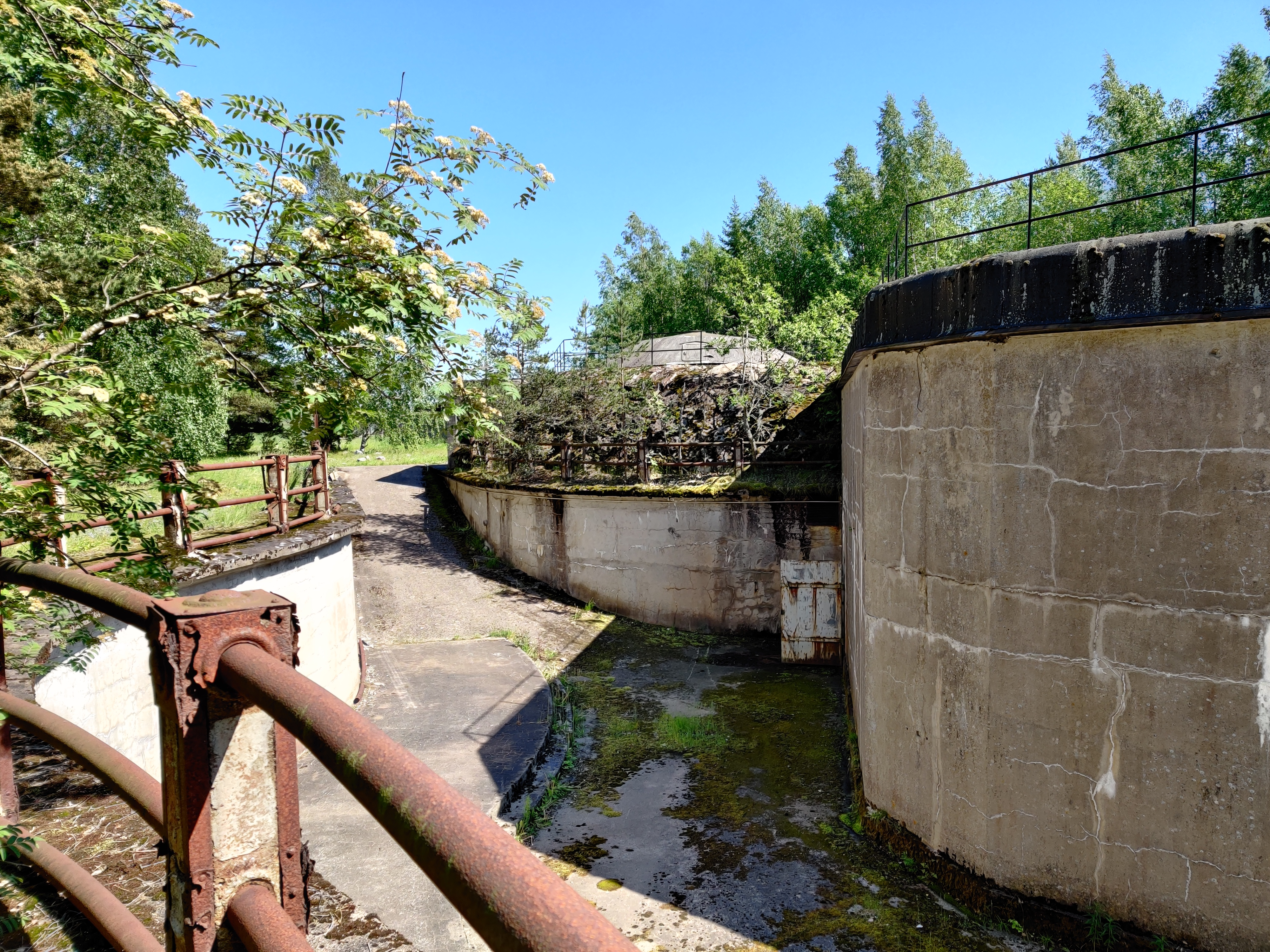 Casemates in Isosaari